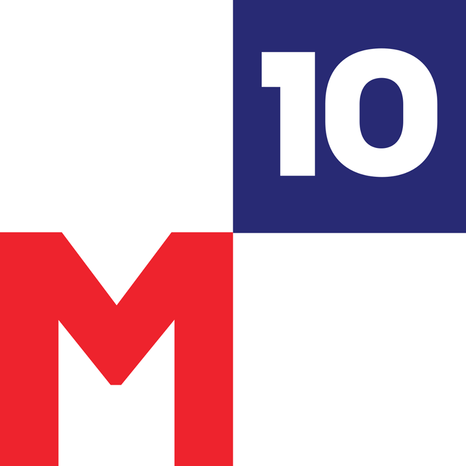 Romanian M10's party logo